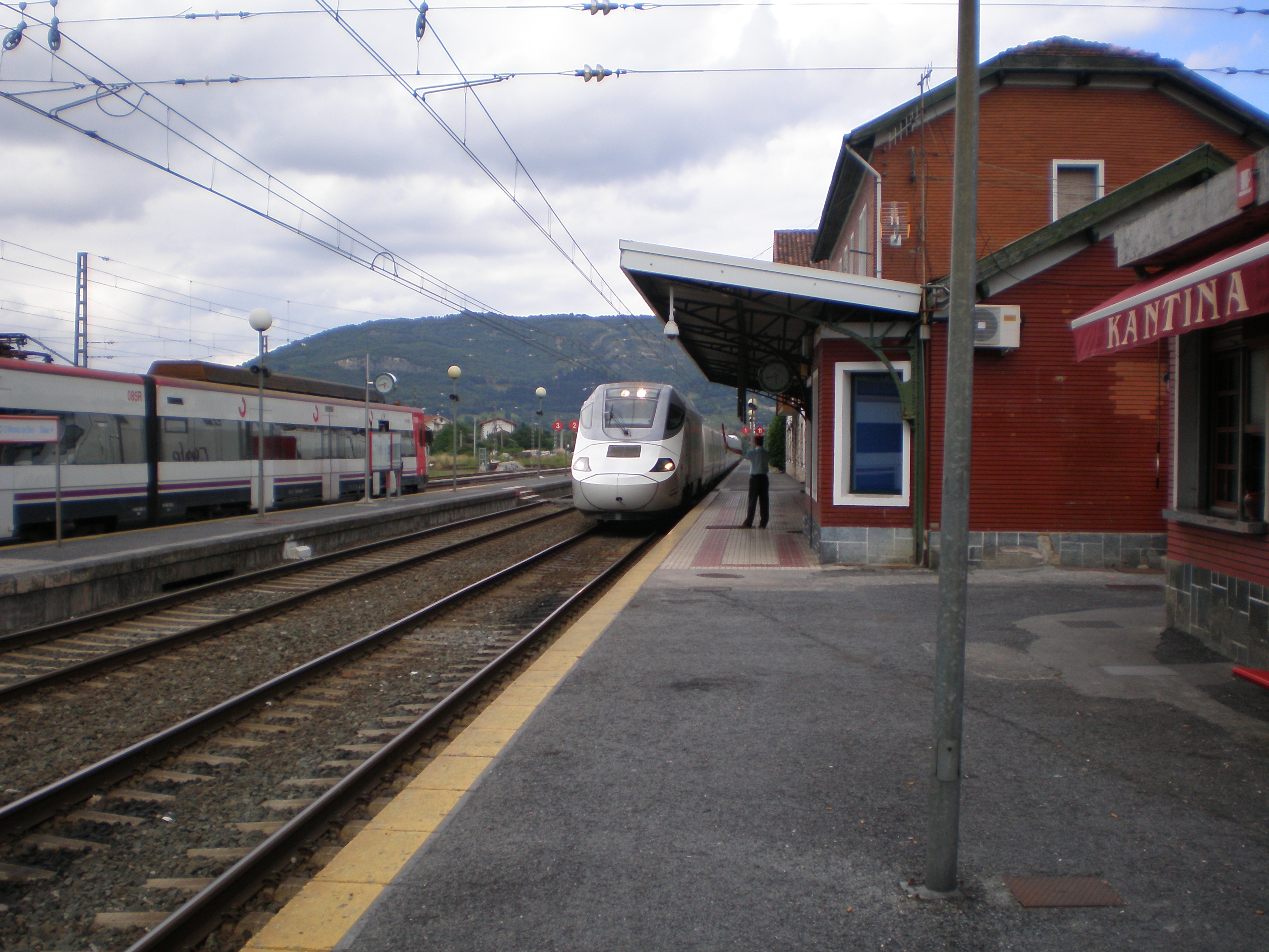 Alvia S130 - Orduña railway station (Spain).